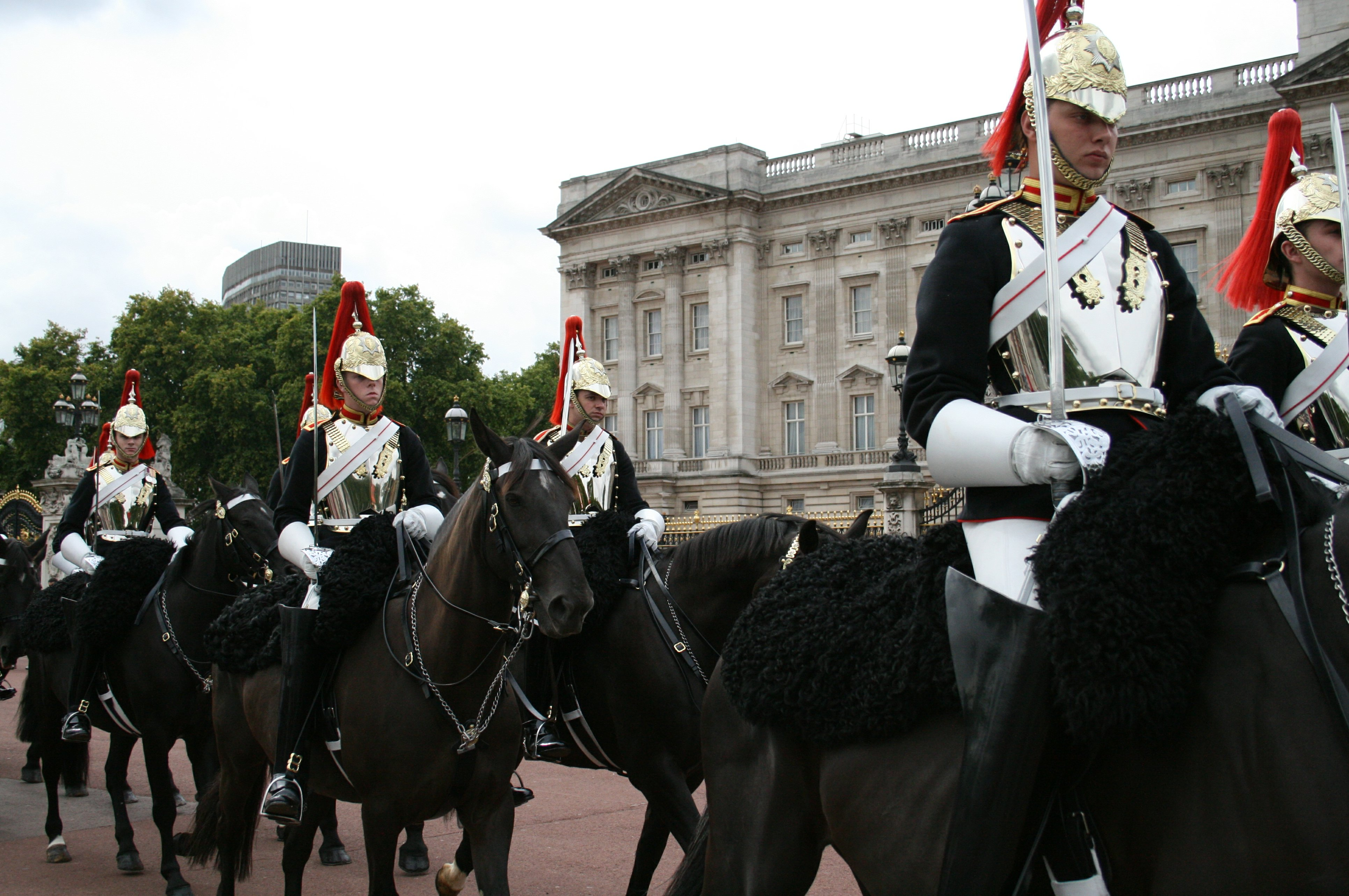 In and around London